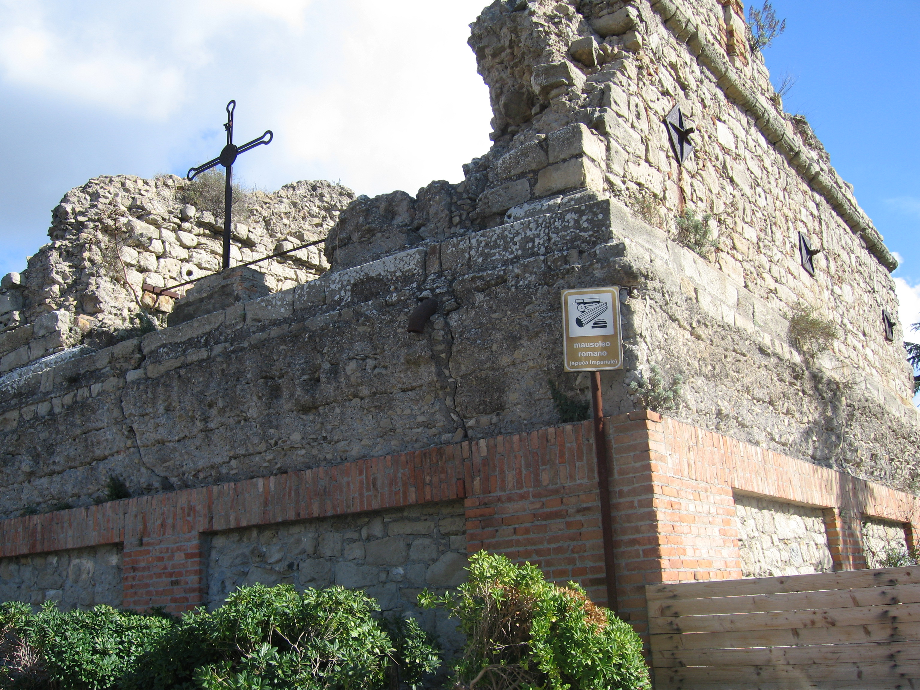 Roman mausoleum at the Villa Comunale di Corradino, Centuripe (Enna, Sicily, Italy)